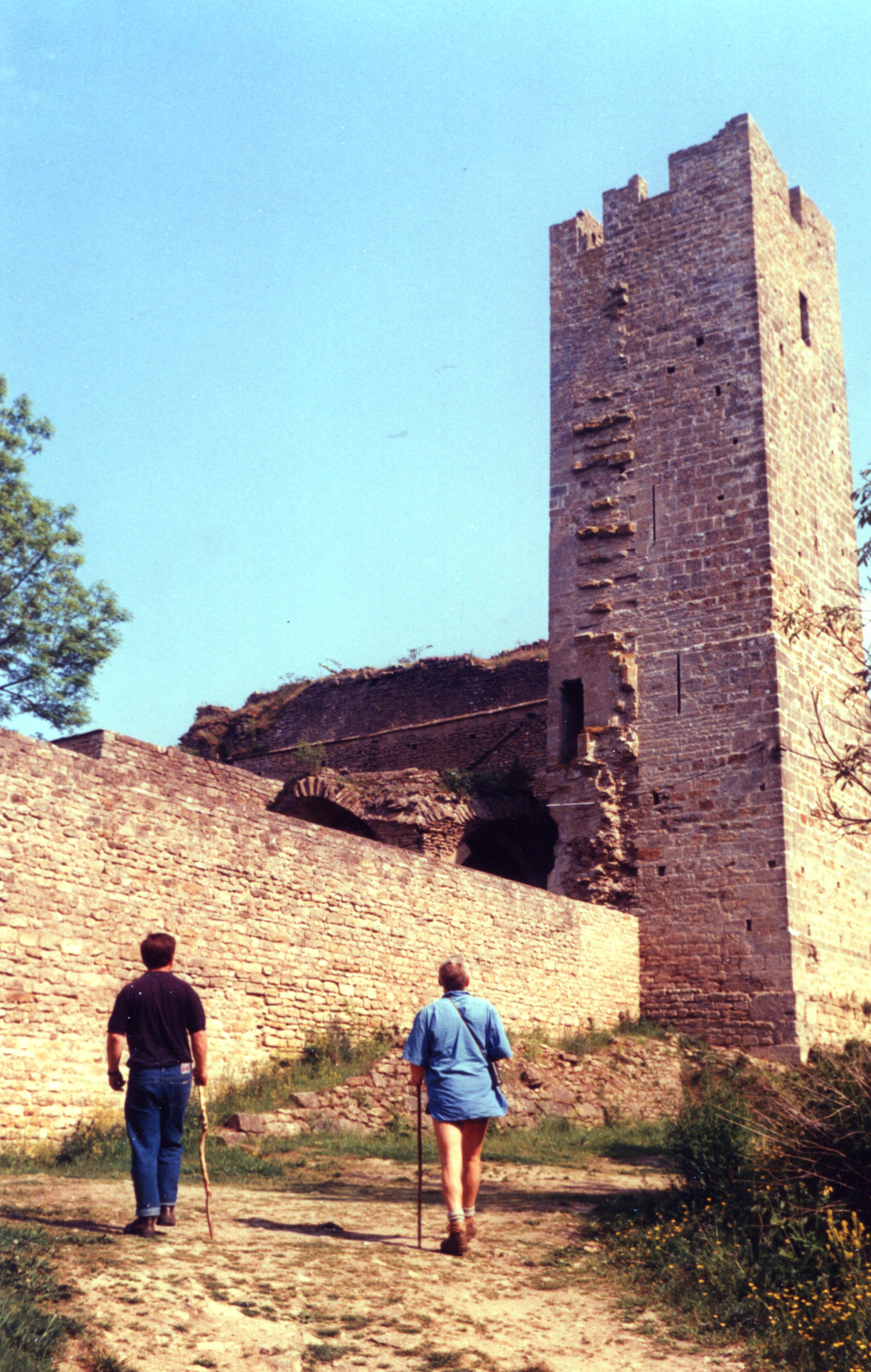 Le château de Thil en 1989